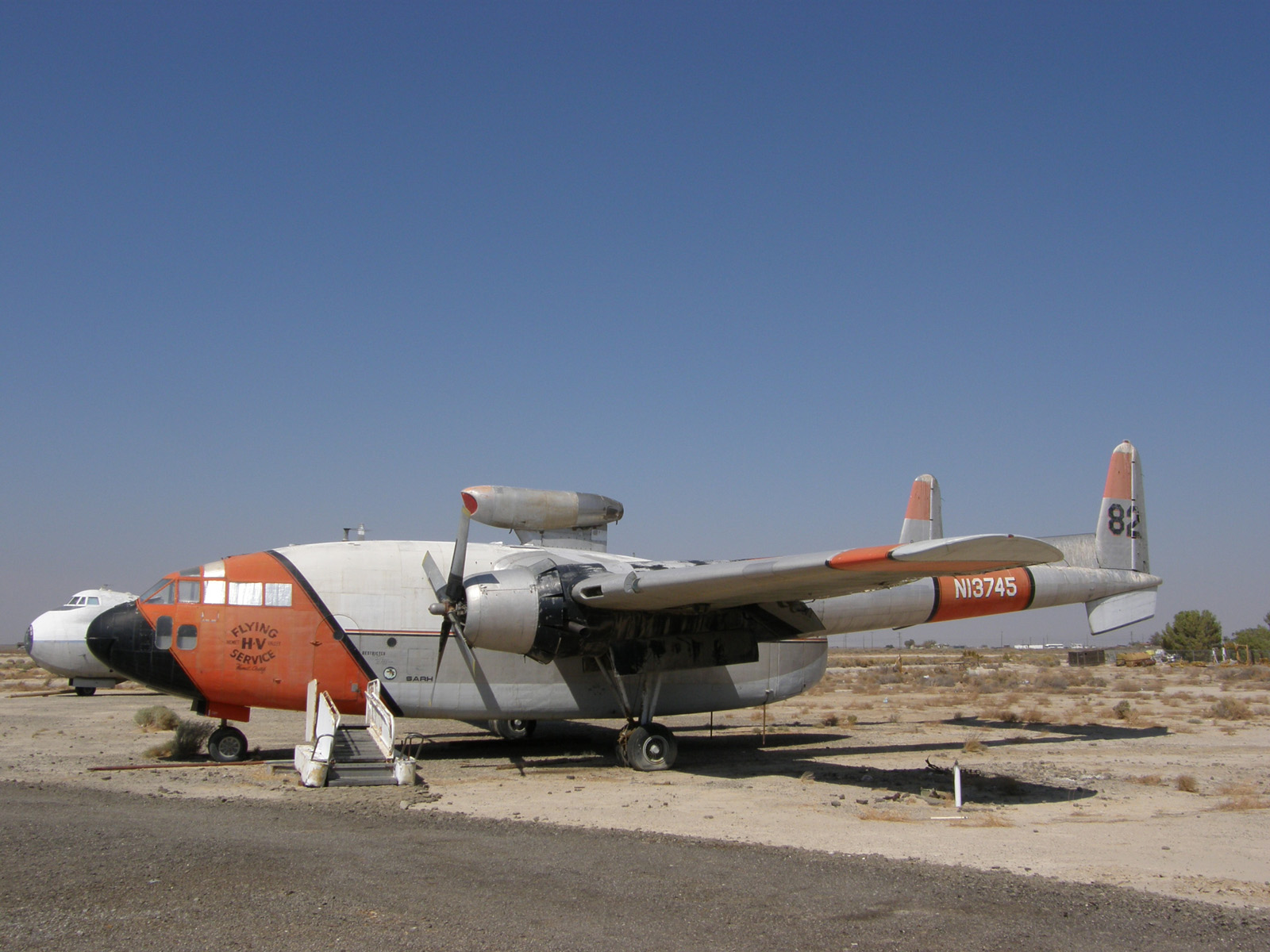 C-119C at the Milestones of Flight Museum, Lancaster California; previously operated as an air tanker by Hemet Valley Flying Service